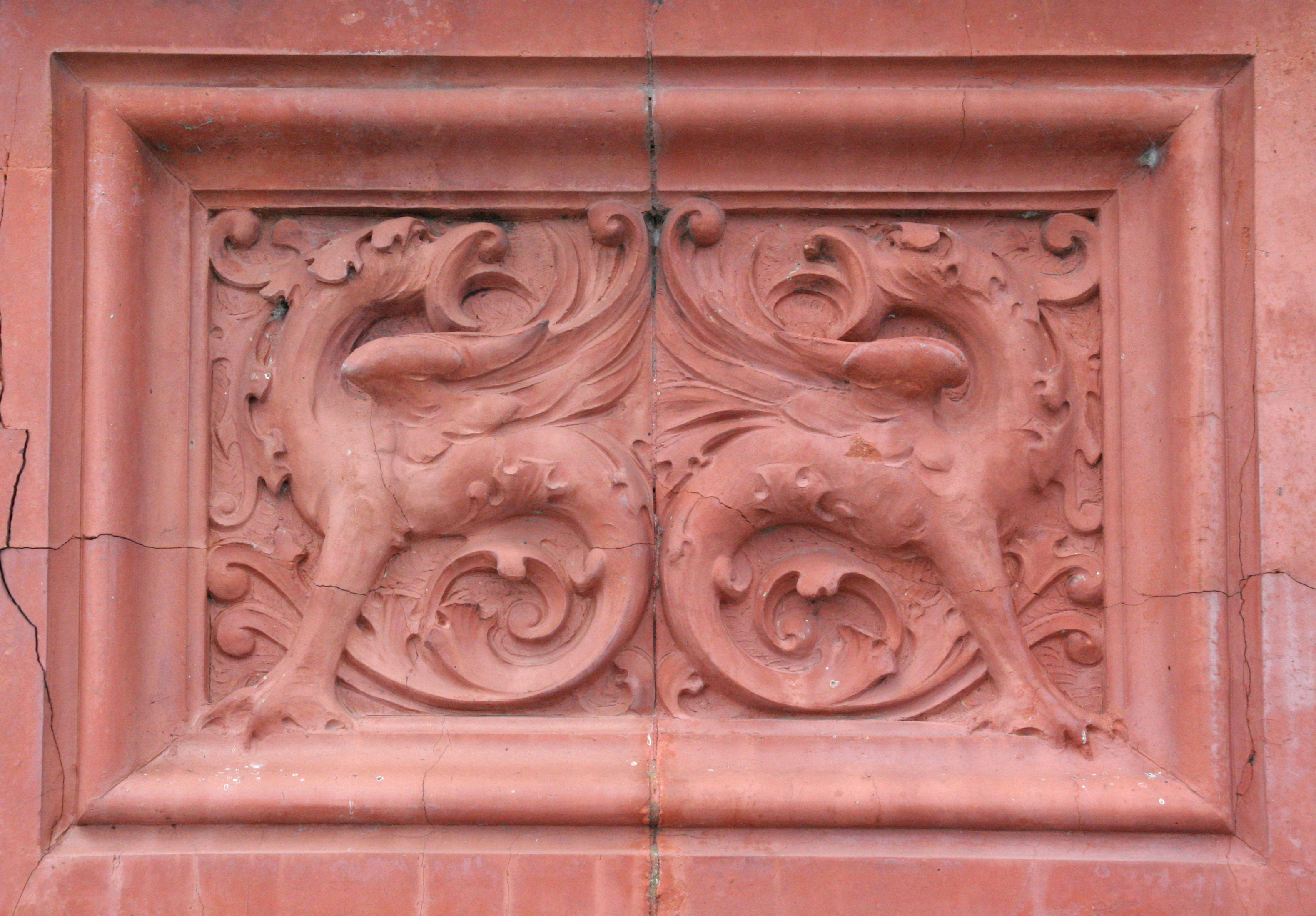 Wyvern Pierhead Building Cardiff Bay